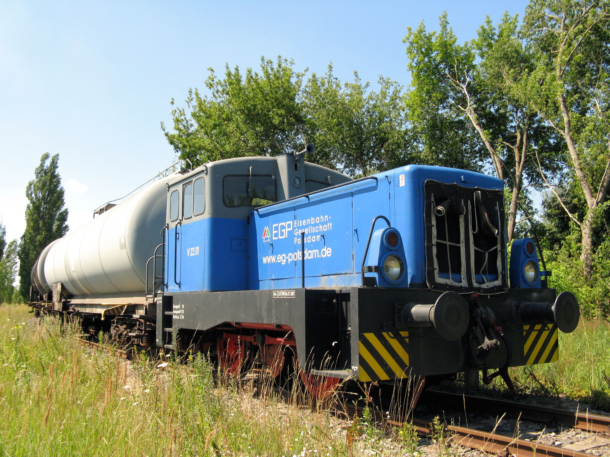 Diesel locomotive V22.01 (LKM V 22 B 262593) in Wittenberge, disctrict Prignitz, Brandenburg, Germany